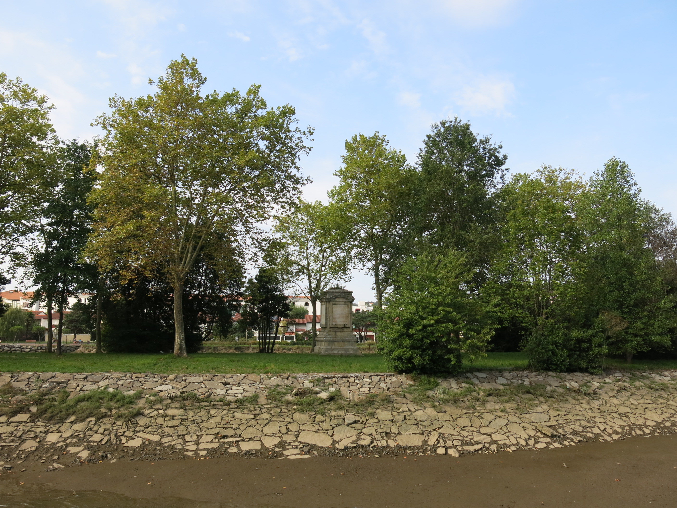 Memorial of the treaty of Pyrenees on Pheasant Island.)